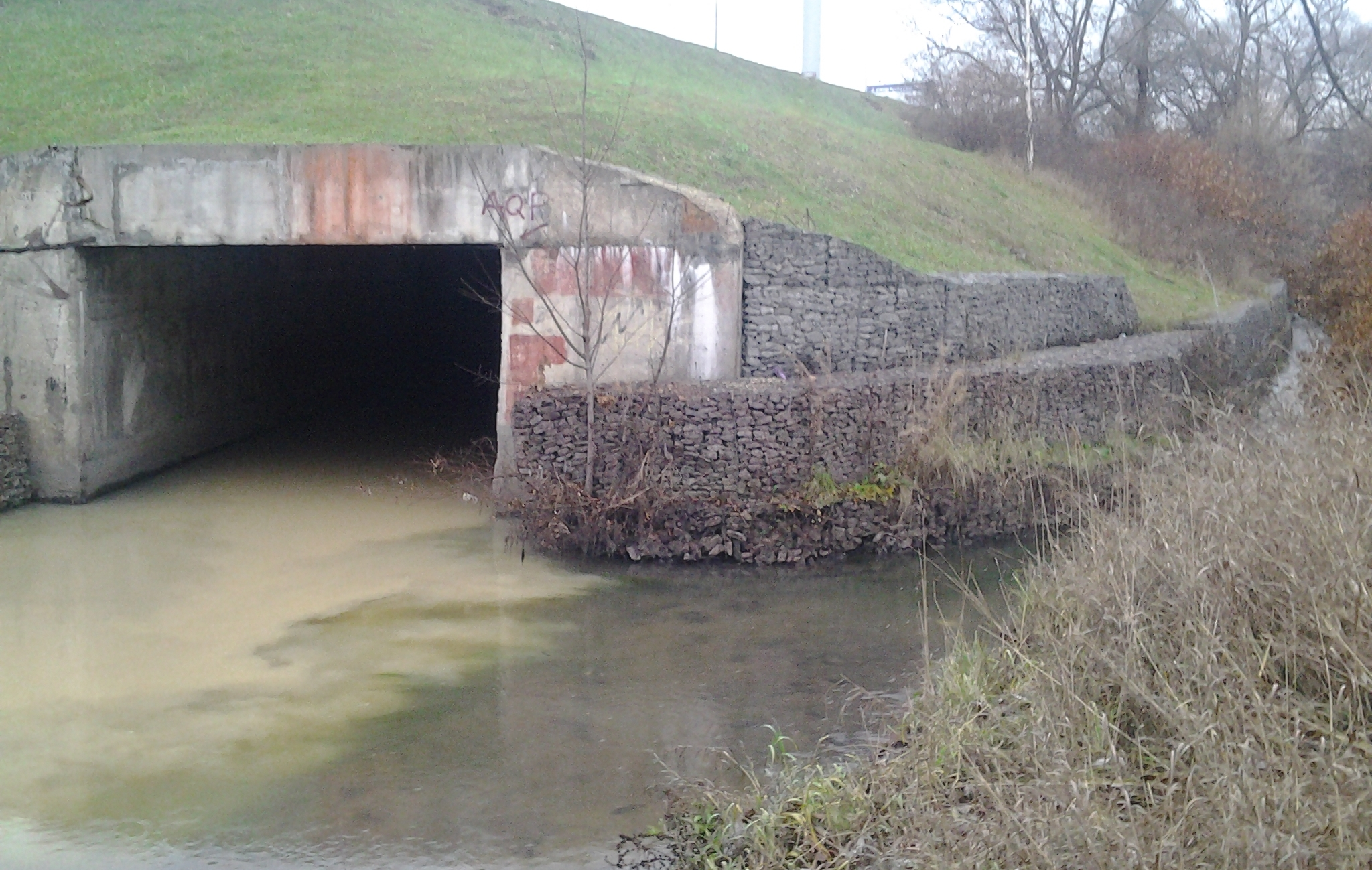 Confluence of Krovyanka river (in underground collector) and Chura river. Moscow city, near Danilov cemetery.